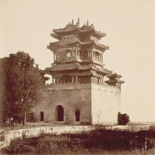 Imperial Summer Palace, before the Burning, Yuen Ming Yuen (sic), Pekin (title from a print of this image appearing in an album compiled in 1862) View of the Belvedere of the God of Literature [Wen Chang Di Jun Ge] (now known as the Studio of Literary Prosperity or Wen Chang Ge), Garden of the Clear Ripples [Qing Yi Yuan] on the grounds of the Yunamingyuan (Old Summer Palace) (now known as the Summer Palace or Yihe Yuan), Peking (now Beijing), China.